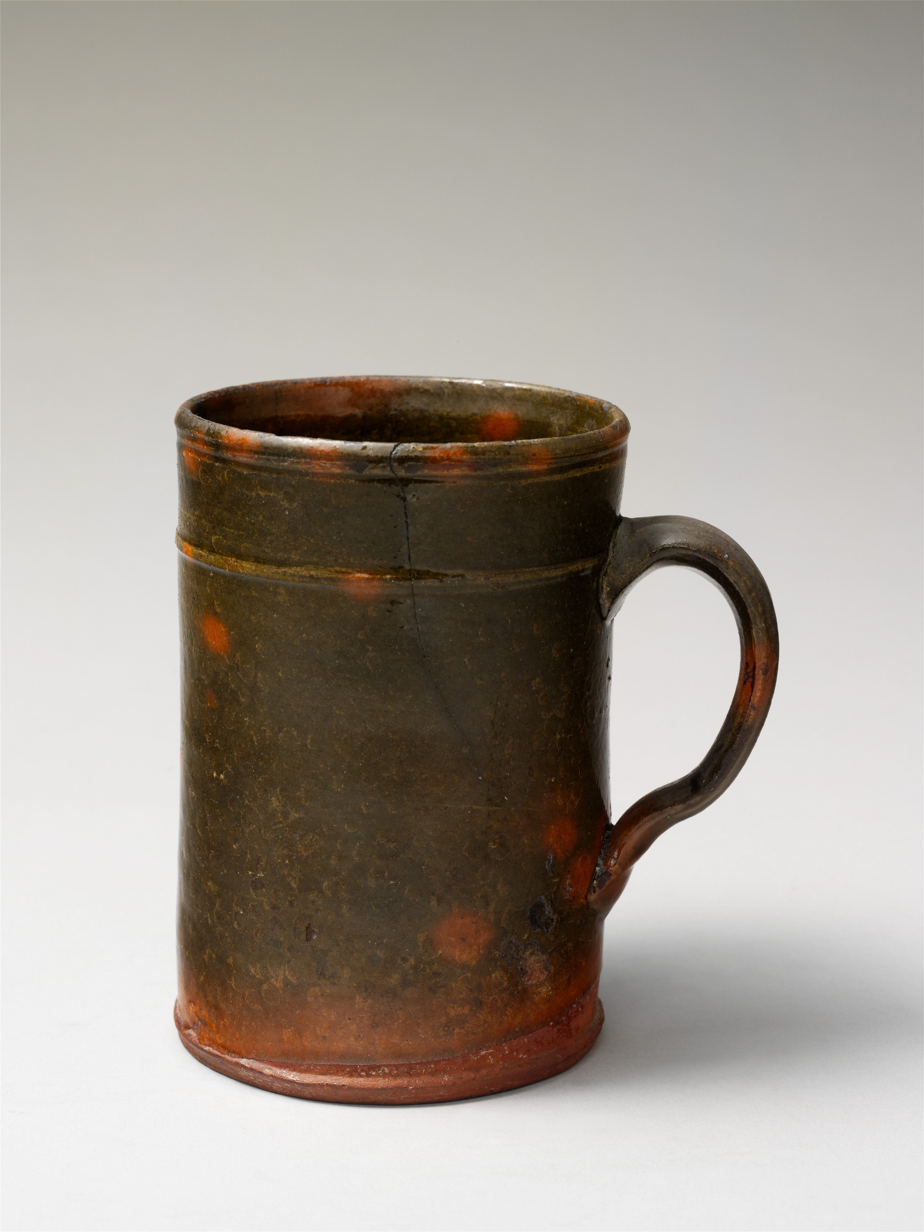 American; Mug; Ceramics